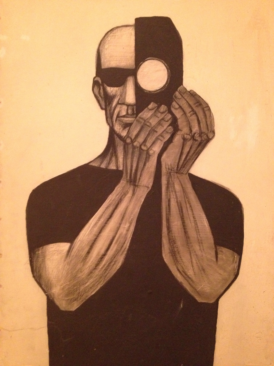 portrait of Saad Nadim holding his camera by Yugoslavian artist